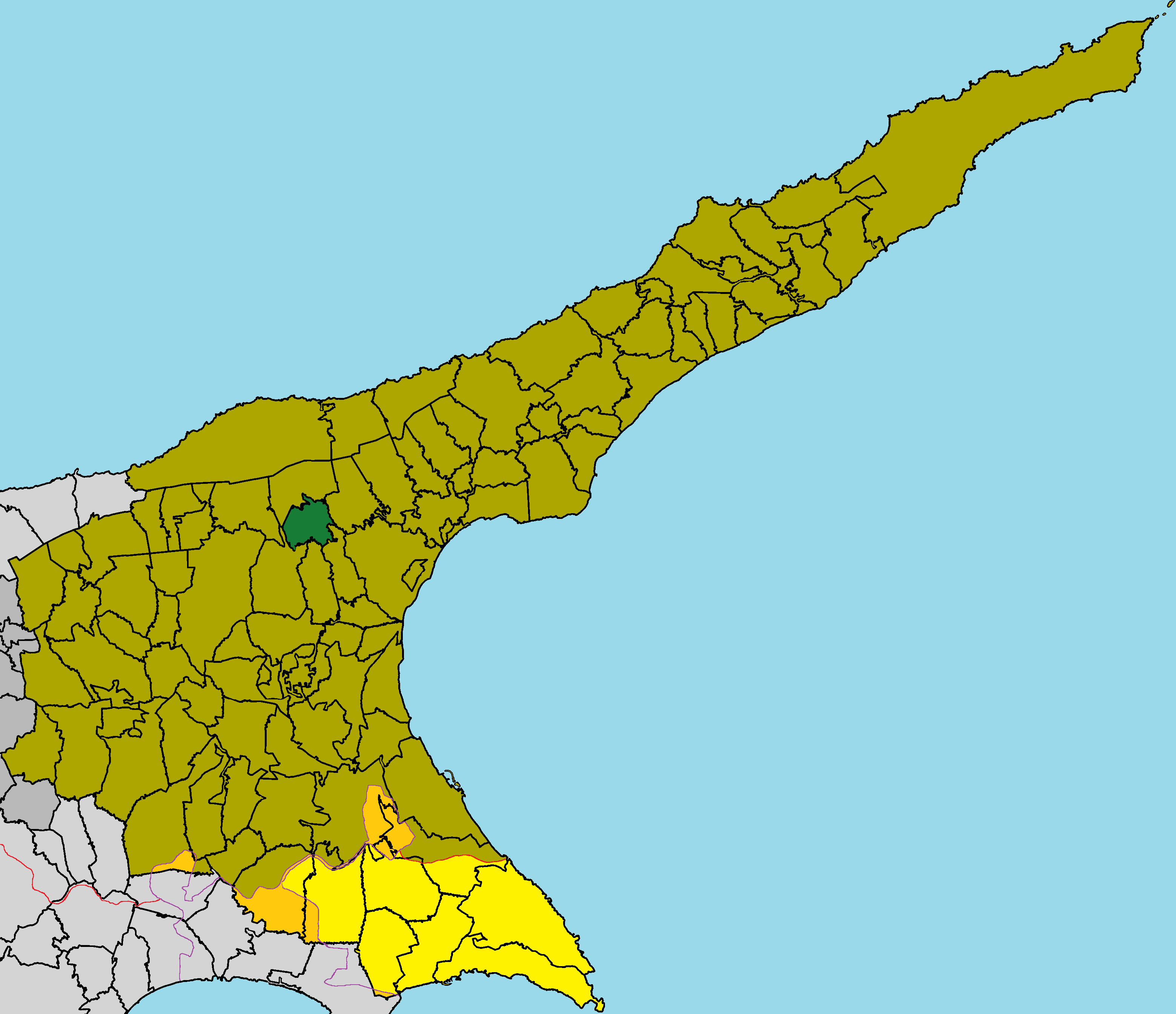 Agios Iakovos in Famagusta District (de jure).